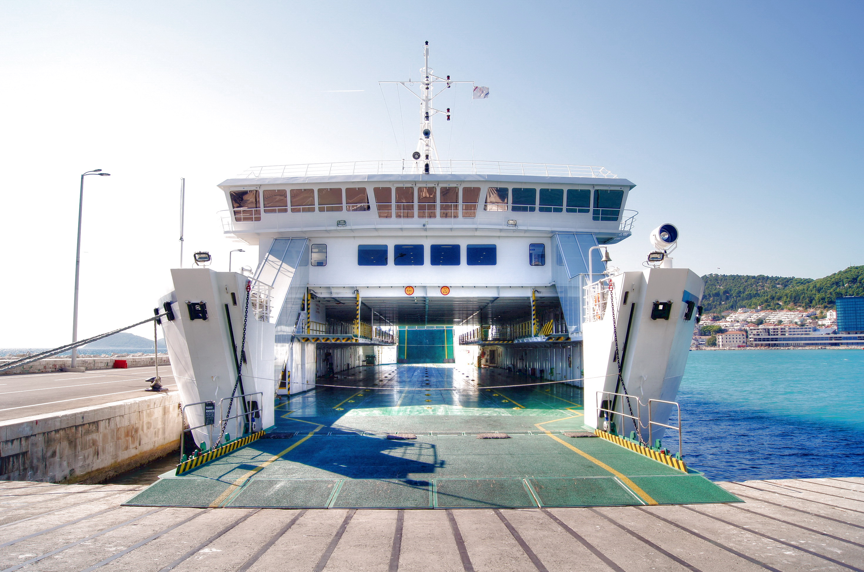 Jadran (ship, 2010) IMO 9559119; in Split, 2011-10-01; Moored to the breakwater of Split harbour.